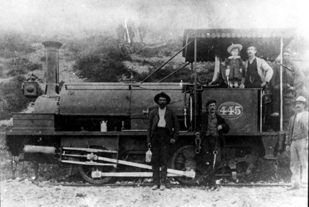 Cape Government Railways 1st Class 0-4-0ST of 1875, no. 445, likely Henschel 280, ex CGR no. 45, later no. 525